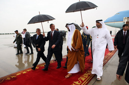 President George W. Bush and President Sheikh Khalifa bin Zayed Al Nayhan of the United Arab Emirates at Abu Dhabi International Airport